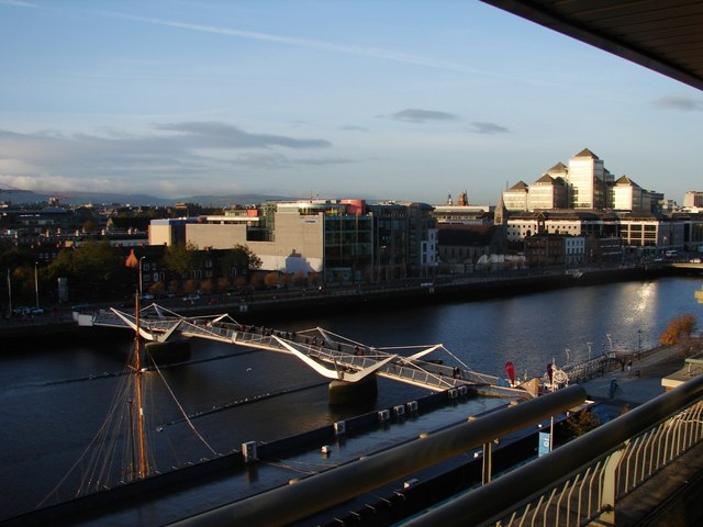 Sean O'Casey Bridge and The River Liffey The footbridge which was opened on 13th July 2005 by Bertie Ahern, T.D. commemorates the life of Sean O'Casey (1880 - 1964), playwright humanist and chronicler of Dublin's poor. "Take heart of grace from your city's hidden splendour." (From 'Red Roses for Me', Act 3.) The bridge was designed and engineered by Brian O'Halloran Associates and O'Connor Sutton Cronin. The main contractor was John Mowlem Construction Limited.